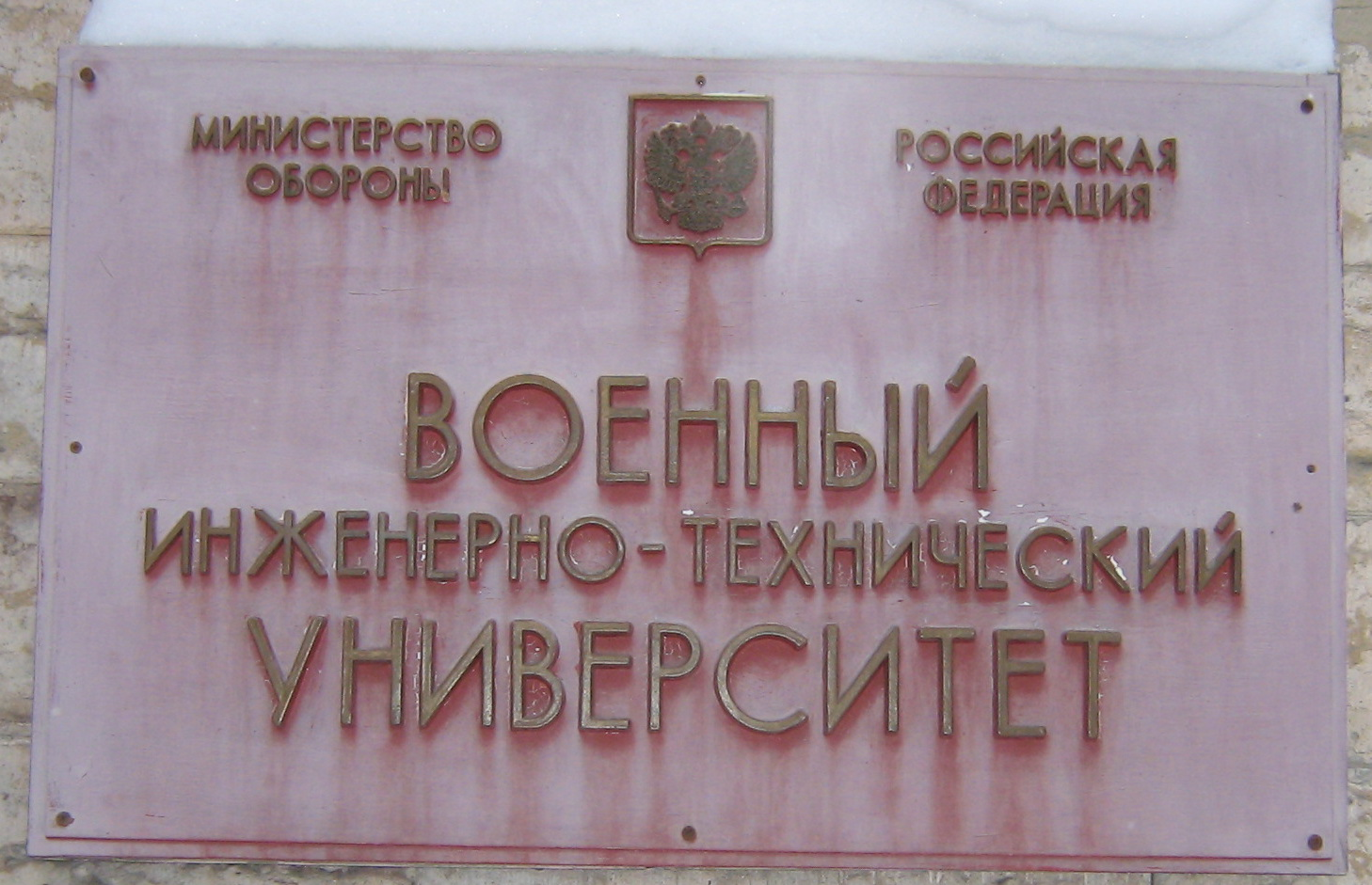 Saint Petersburg (Russia), town Pushkin.